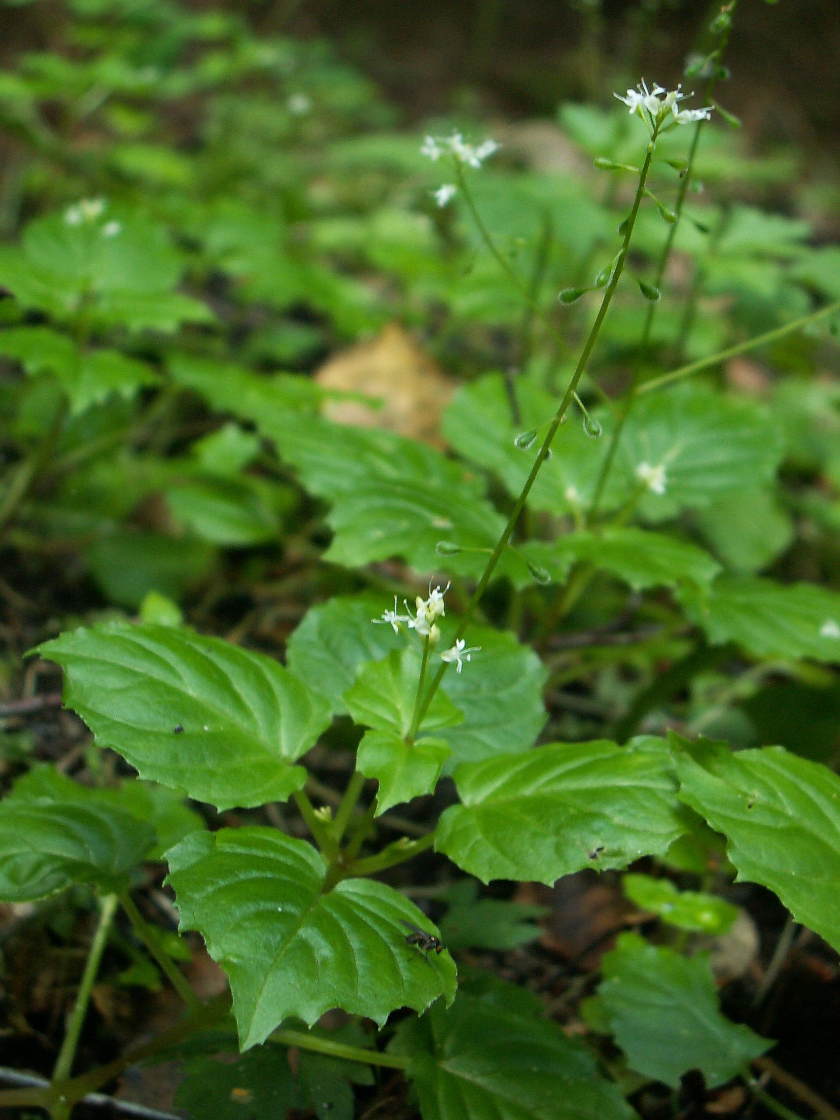 Circaea alpina, wet alder forest near Goleniow, NW Poland